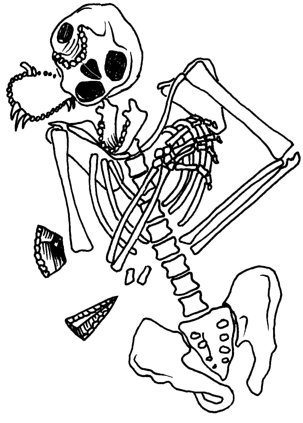 Neanderthal Burial of Kebara Cave (Carmel Range, Israel). Thermoluminescence dates place Neanderthal levels at Kebara at ca. 60,000 BP - (58th millennium BC). Burial of a adutl man nicknamed Moshe (25-35 years old, height 1,70 m) found in 1983.